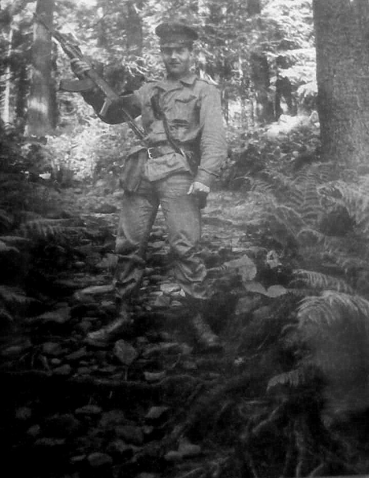 WOP post in Zawoja